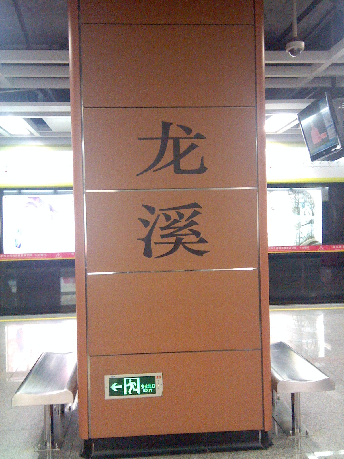 龙溪站书法站名（柱子上的）